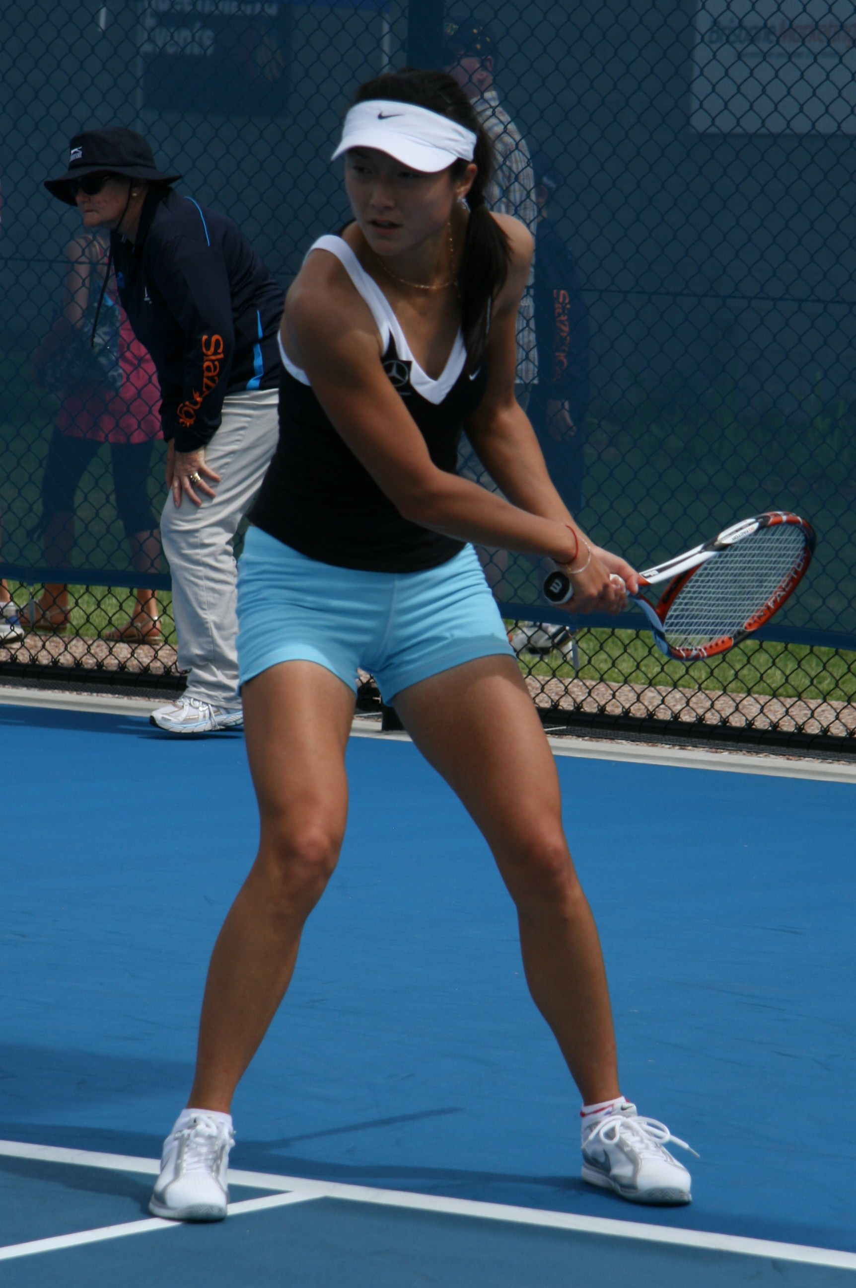 Zi Yan at the 2009 Brisbane International